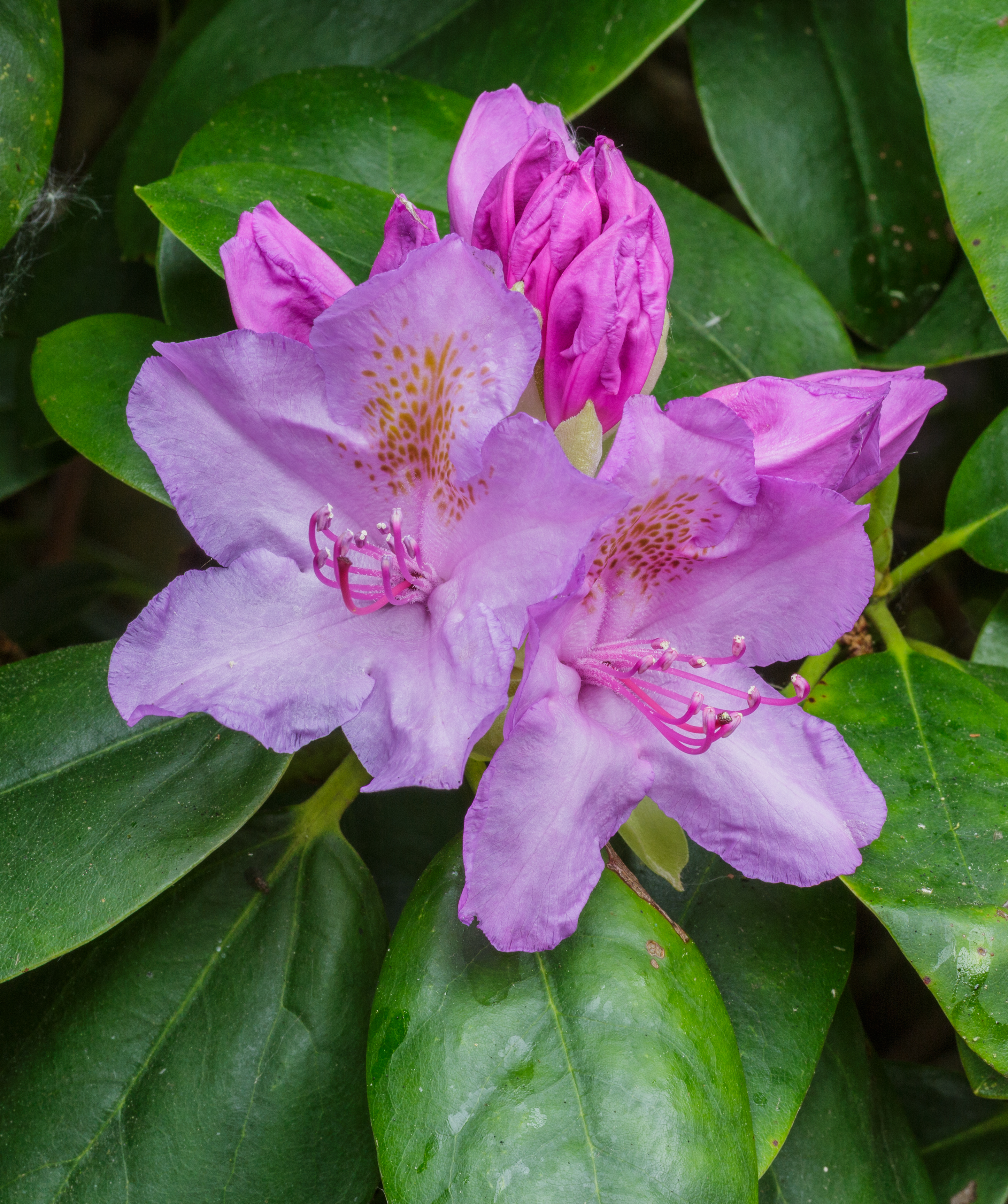 Half-opened flower of Rhododendron ponticum.